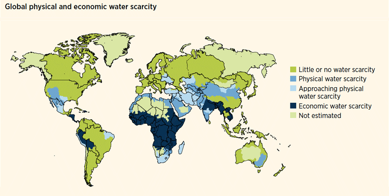 World Water Development Report 4. World Water Assessment Programme (WWAP), March 2012.